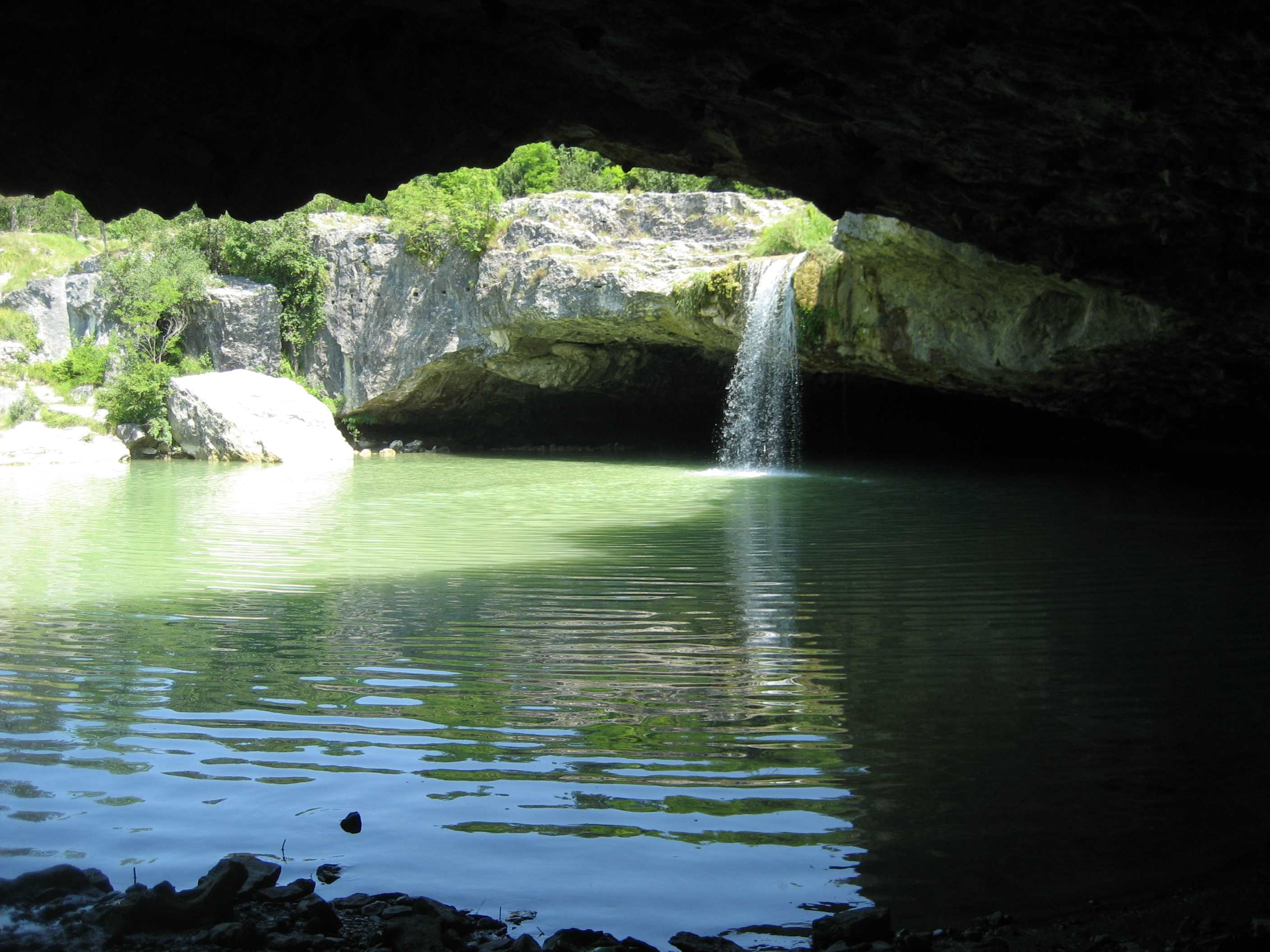 Zarecki Krov Waterfall, Croatia.